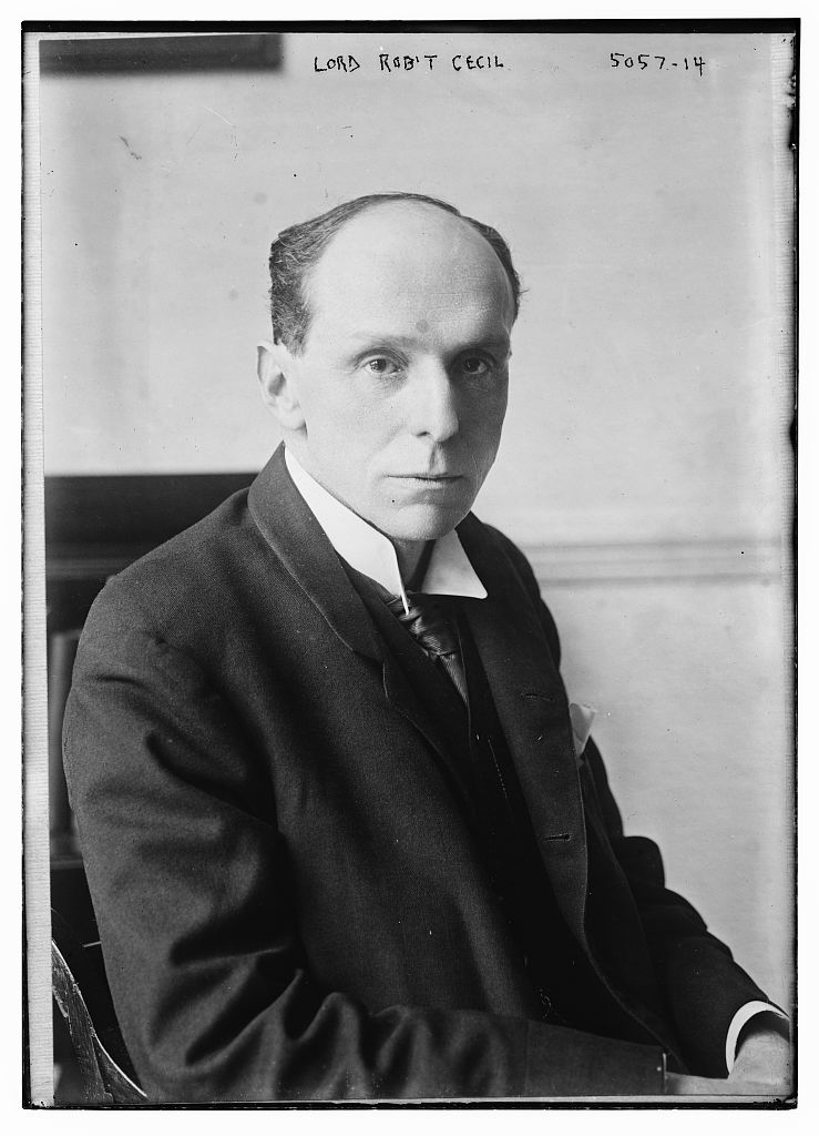 Title: Lord Robt. Cecil Abstract/medium: 1 negative : glass ; 5 x 7 in. or smaller.